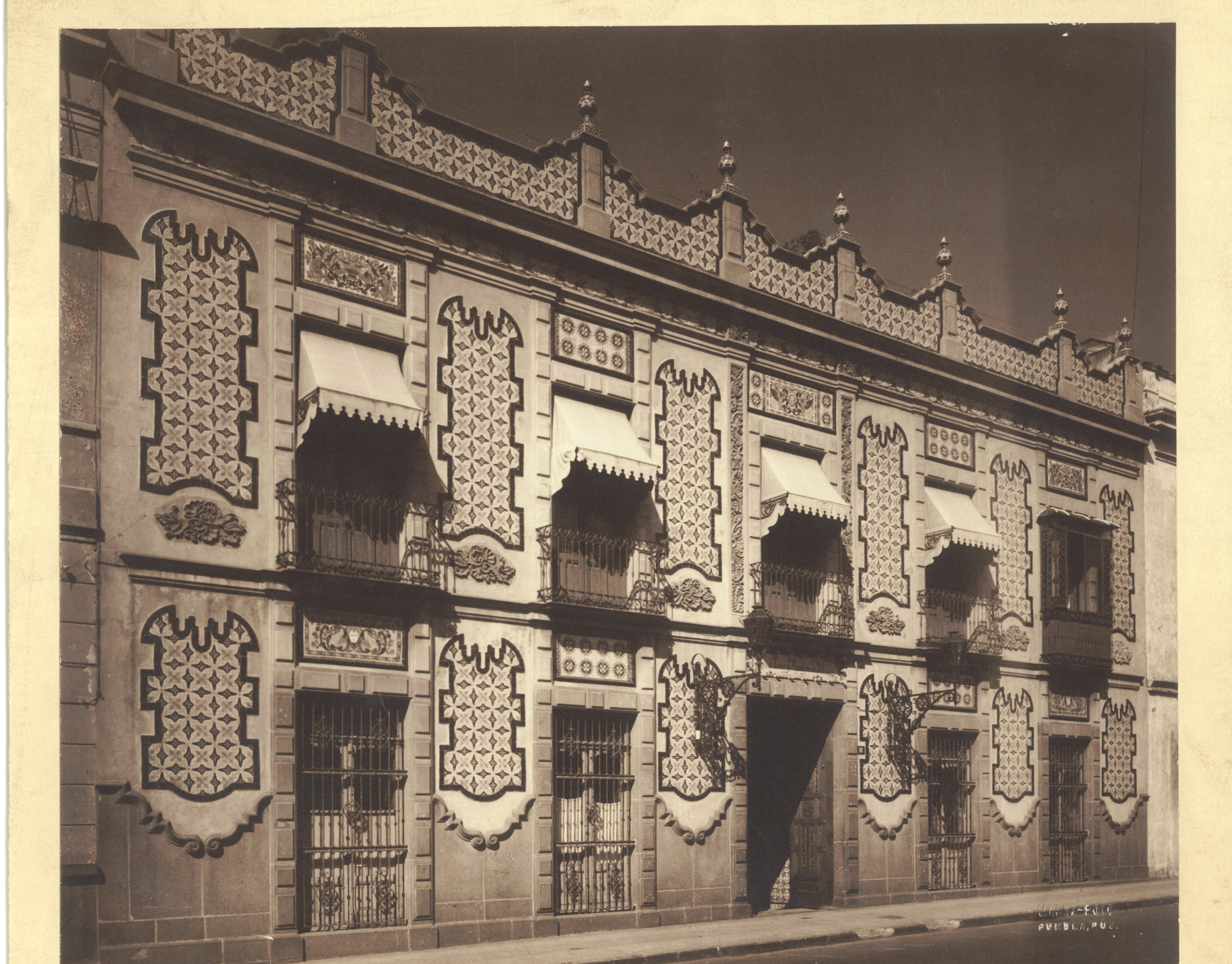 Facade of Uriarte Talavera